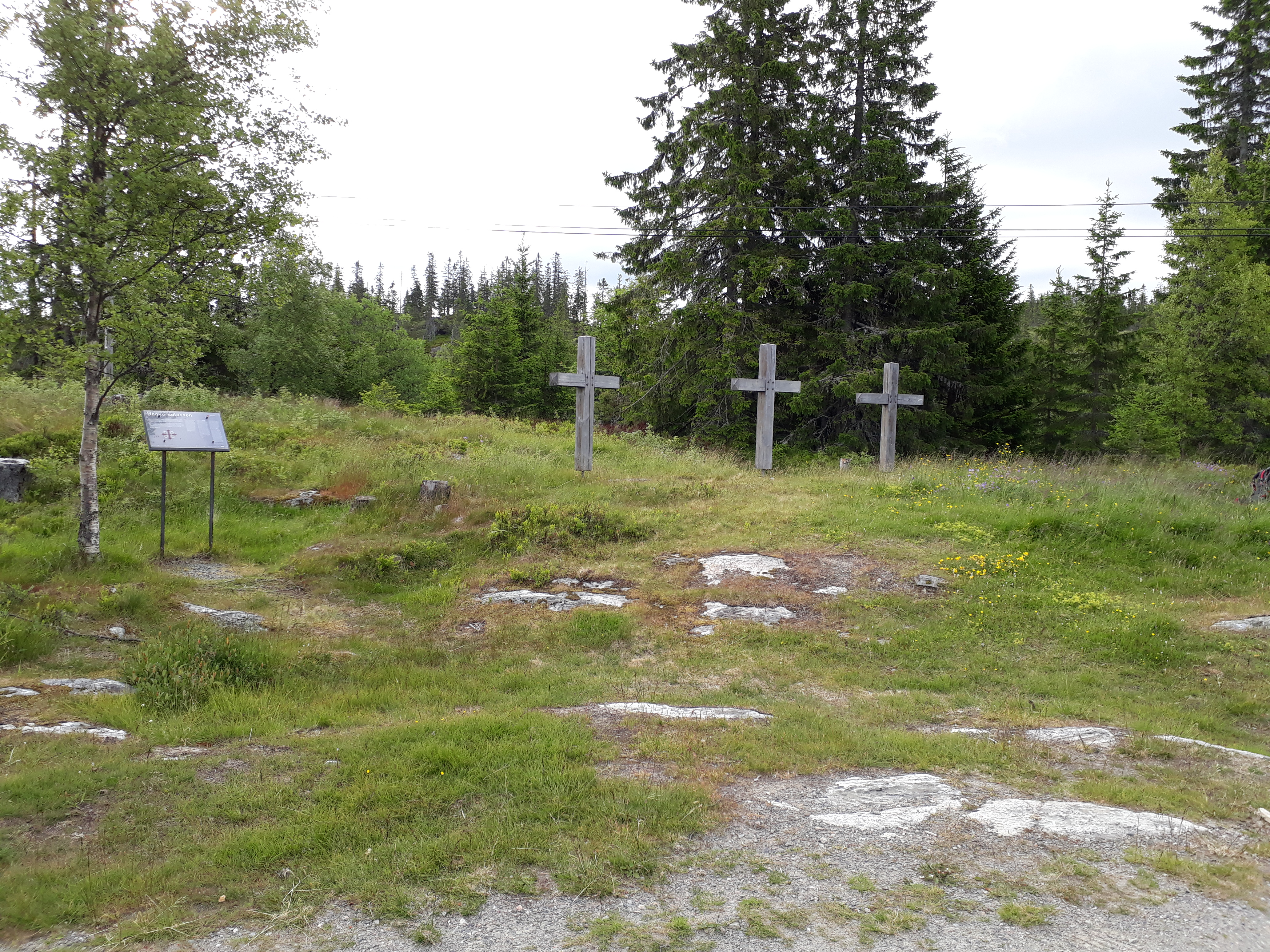 Crosses at Høgkorset